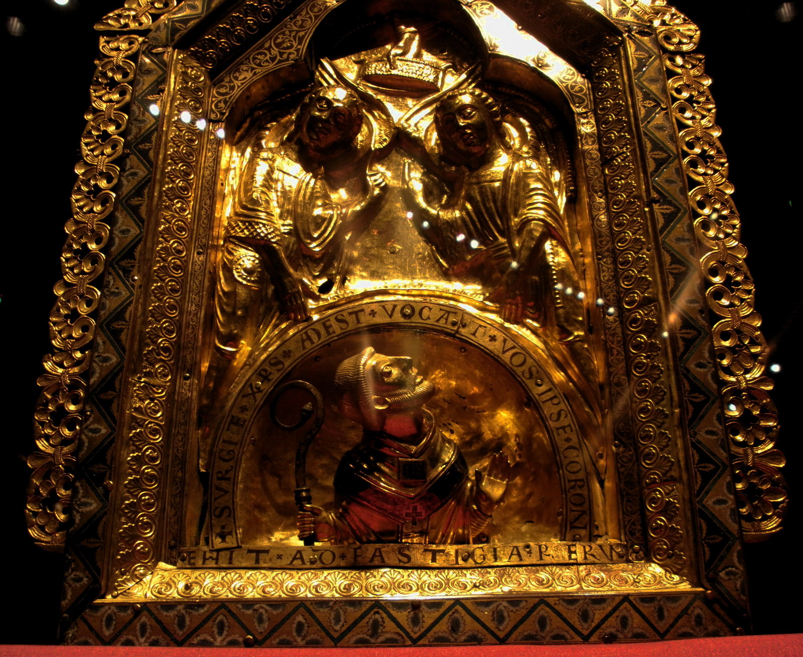 Reliquary of Saint Monulph in the collection of European decorative arts of the Museum of Art and History (Cinquantenaire Museum), Brussels, Belgium. Originally in the treasure of the Basilica of Saint Servatius, Maastricht, Netherlands, where it was diplayed, together with 3 other reliquaries, on either side of the reliquary chest of Saint Servatius. Maastricht(?), XIIth c., gilded copper over oak wood.